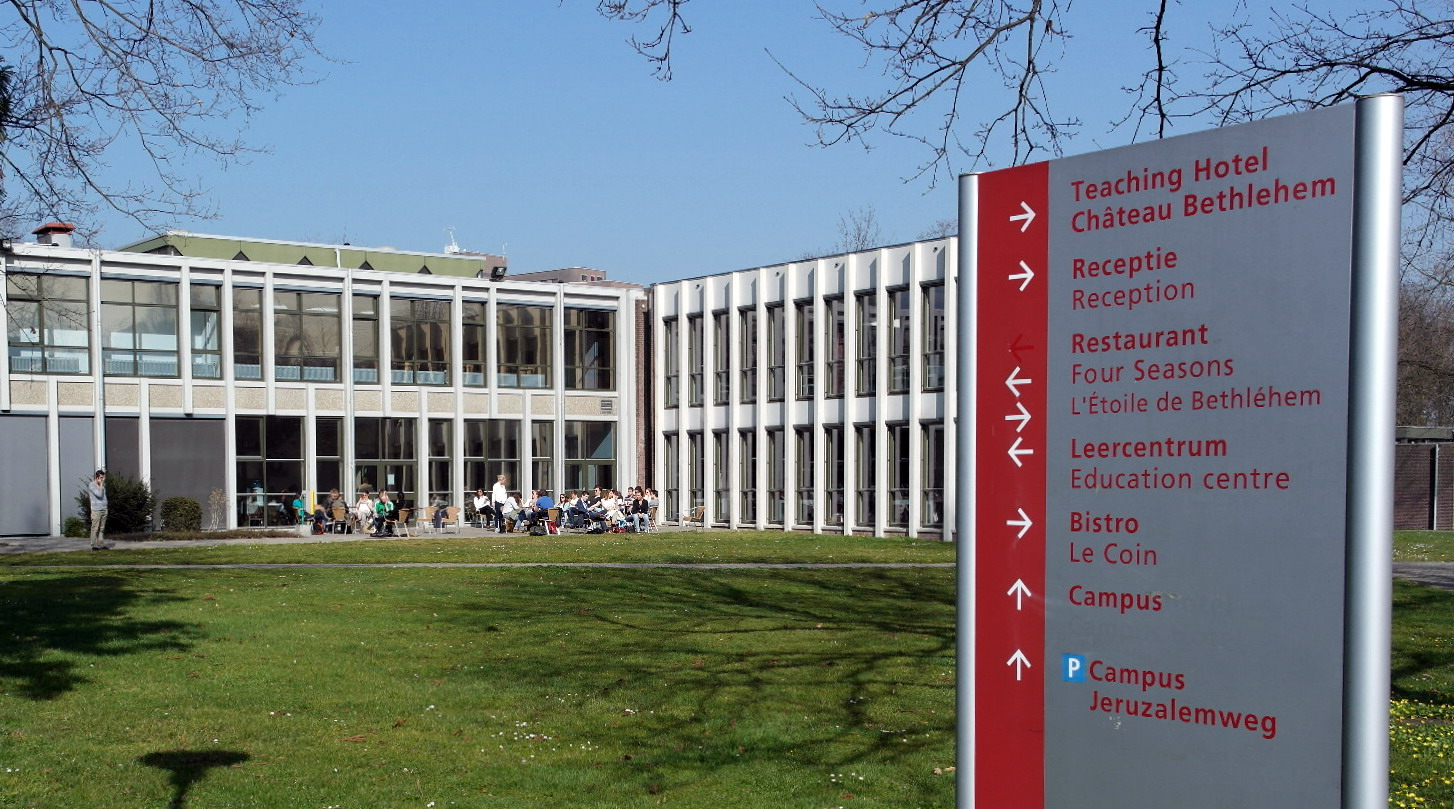 Maastricht, the Netherlands. View of the student campus of the Hotel Management School Maastricht, adjacent to Bethlehem Castle in Limmel.